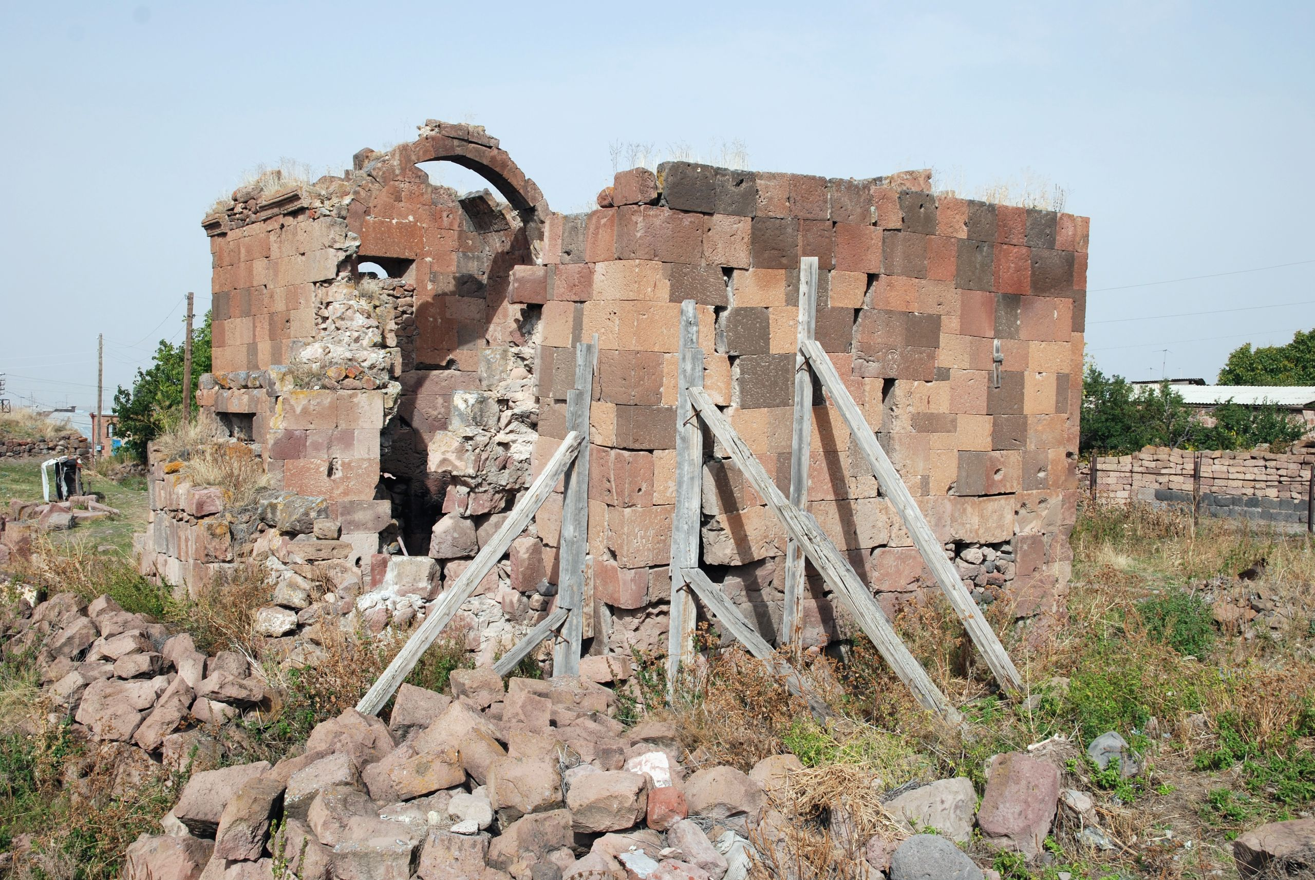 Surb Astvatsatsin, small church